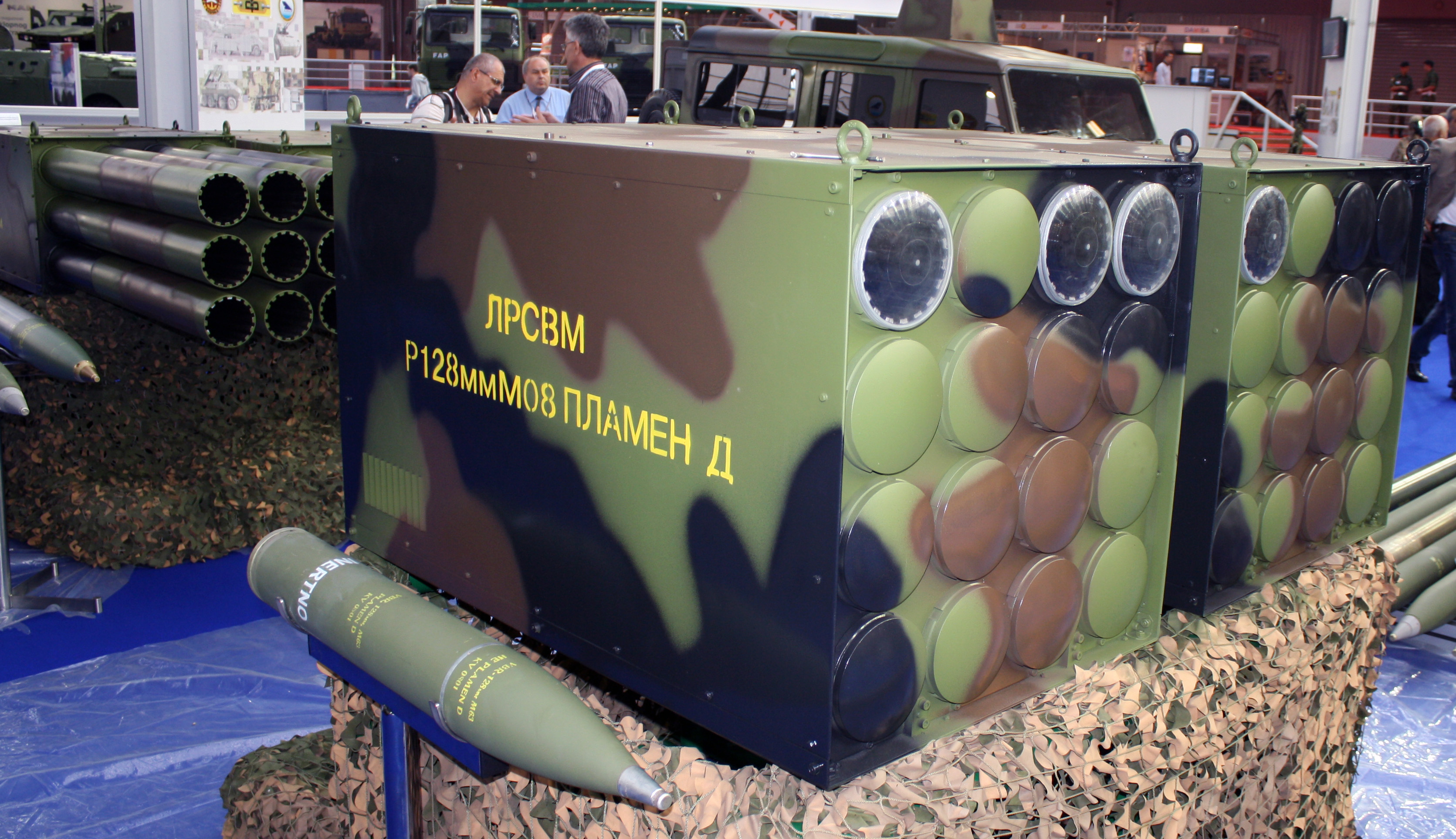 Plamen-D 128mm rocket with improved range next to its modular container for new Modular multiple rocket launcher (LRSVM) on display at "Partner 2011" military fair.